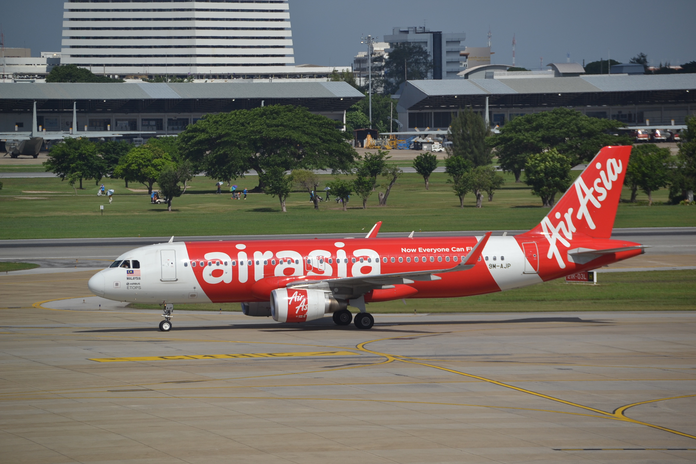 Airbus A320(SL) of AirAsia at Bangkok Don Mueang-DMK, Thailand,19/06/15.